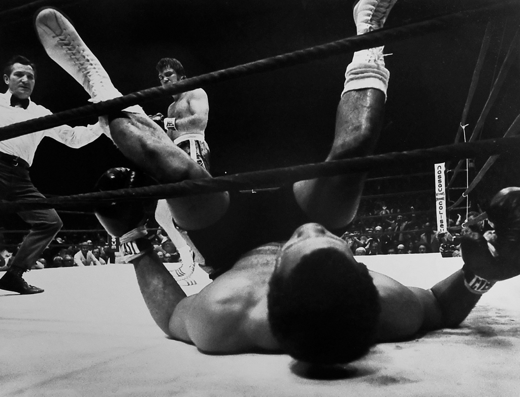 8 May 1974 - Jerry Quarry v. Joe Alexander, Nassau Coliseum Uniondale, New York. After a surprizing knockdown by Alexander in the first round Jerry Quarry came back to knock out Joe Alexander in round two. Dan Neville